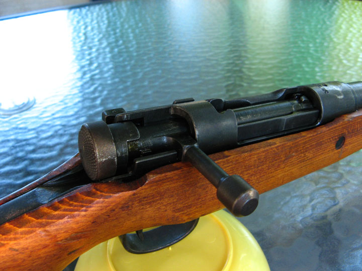 This shows the bolt of the Type 99 Arisaka rifle closed and locked, ready to fire.